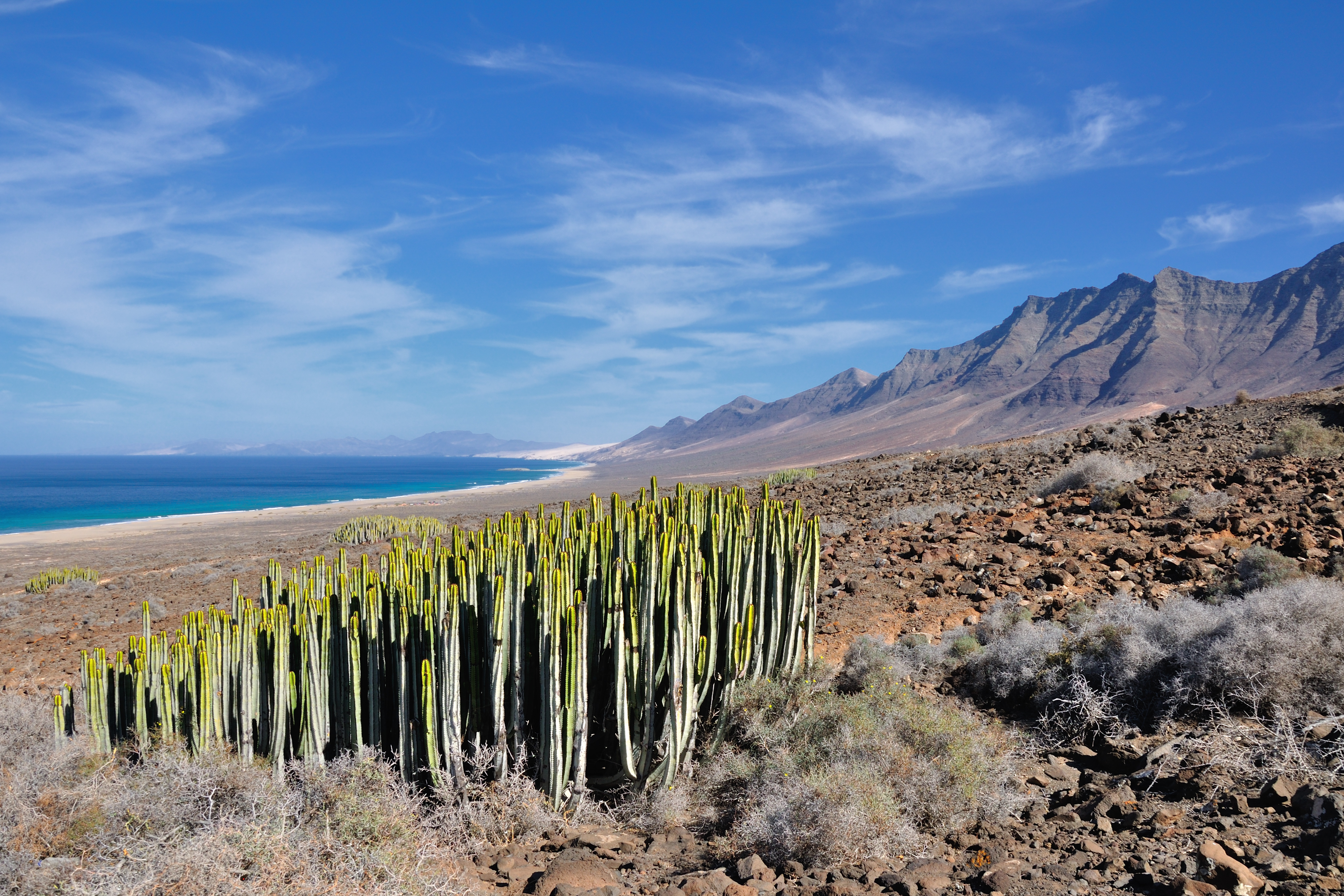 Spain, South West coast near Cofete